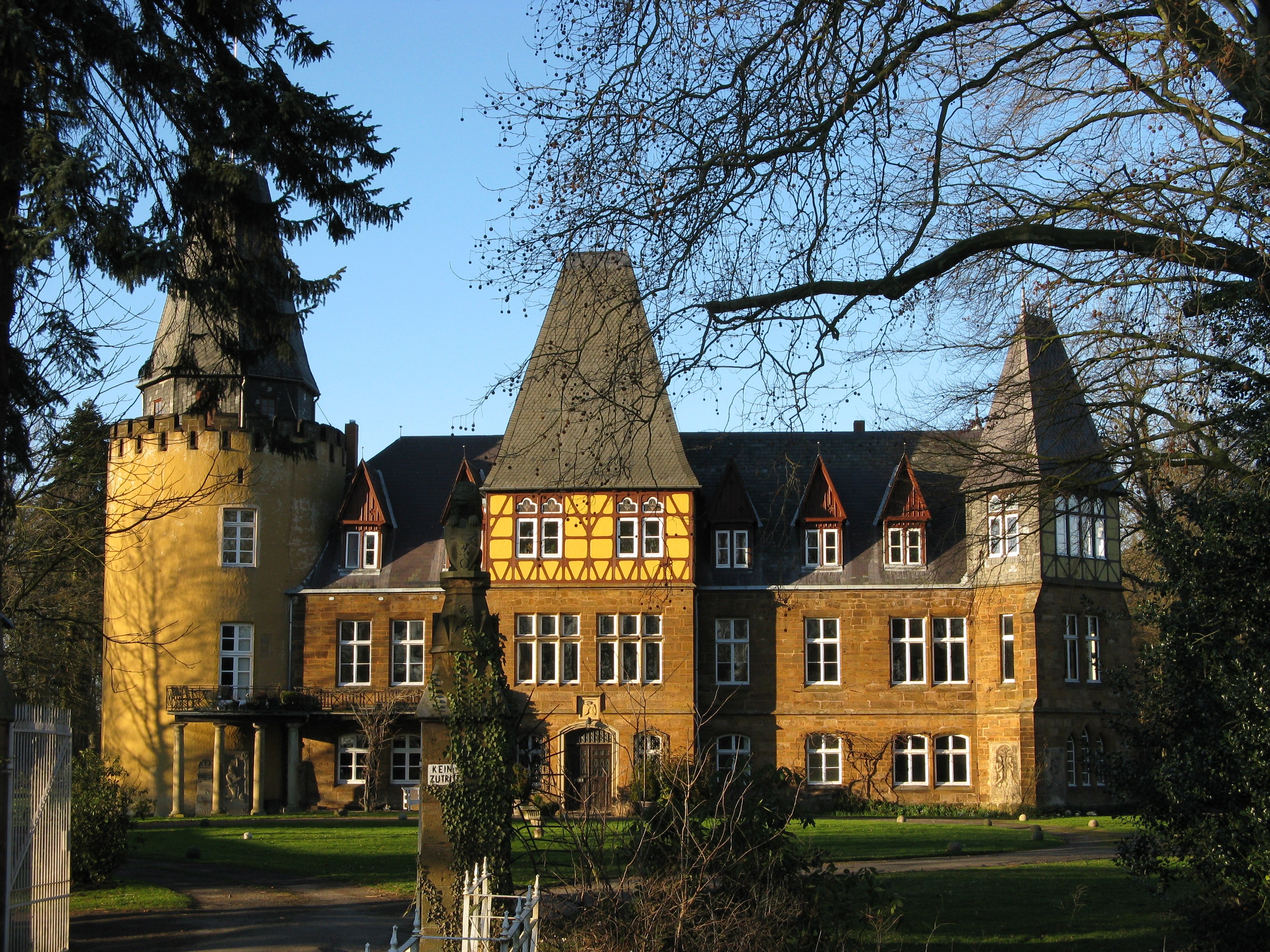 This is a photograph of an architectural monument. It is on the list of cultural monuments of Preußisch Oldendorf